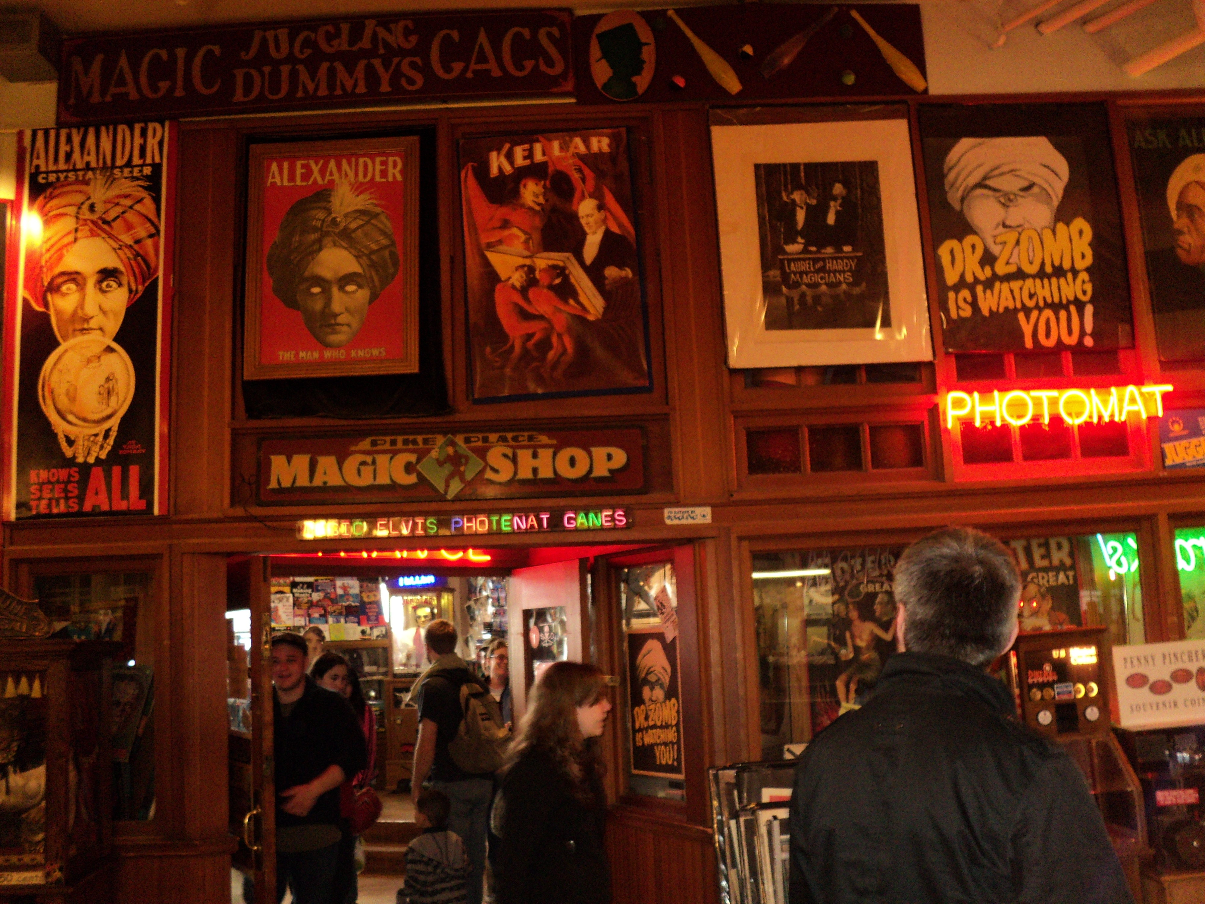 View of the sign for the Pike Place Magic Shop, Pike Place Market, Seattle, Washington.